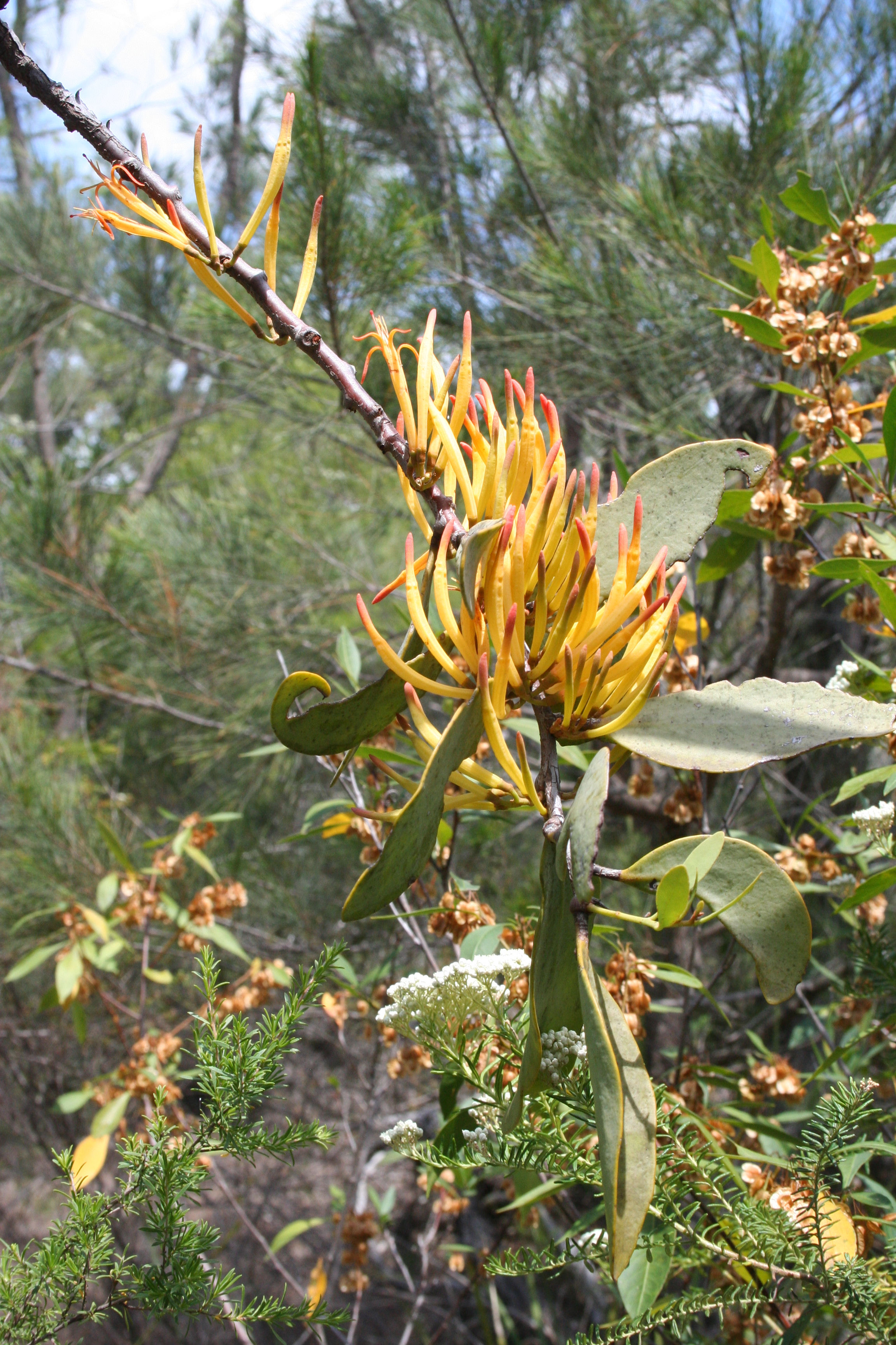 Dendrophthoe vitellina growing on Allocasuarina on Nannygoat Hill in Earlwood NSW